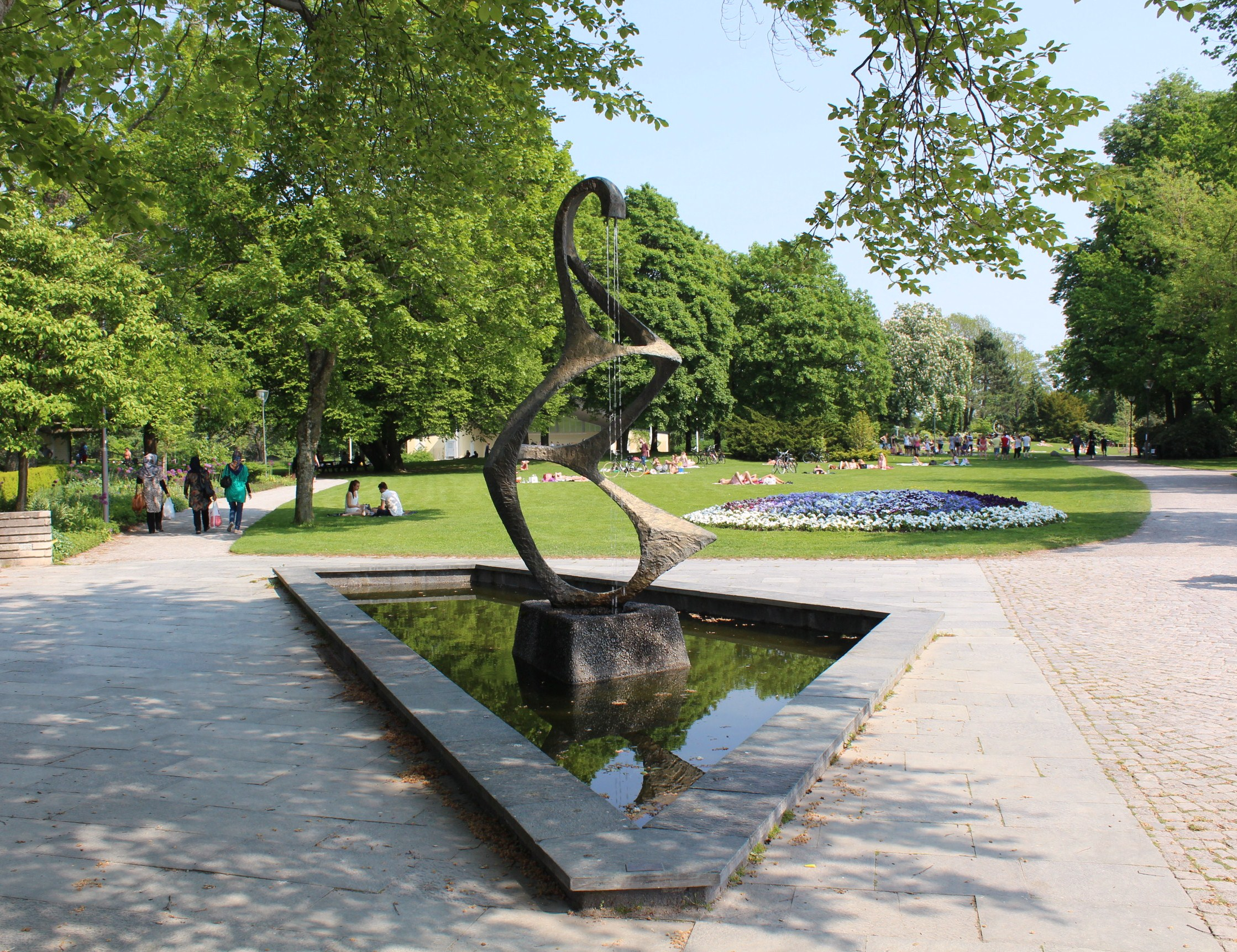 Park area in central Örebro, Sweden